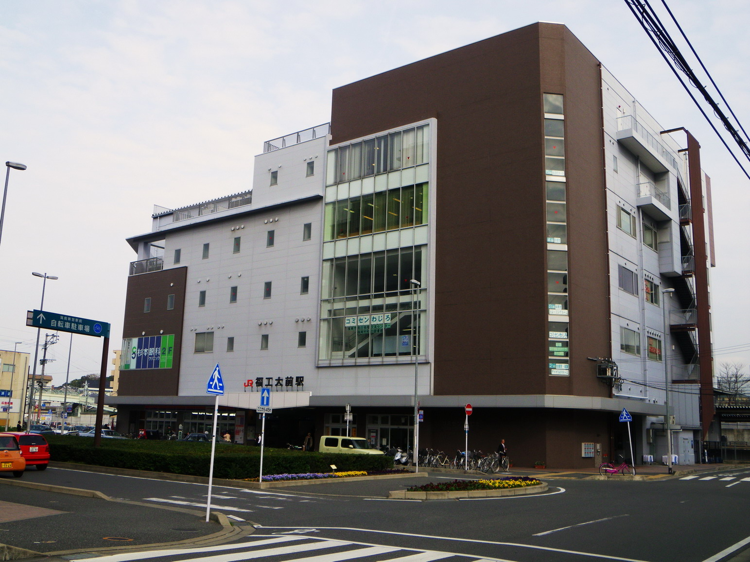 Kyushu Railway Company Fukkodaimae Station (Chikuzen-Shingu Station), Wajirogaoka, Fukuoka City, Japan